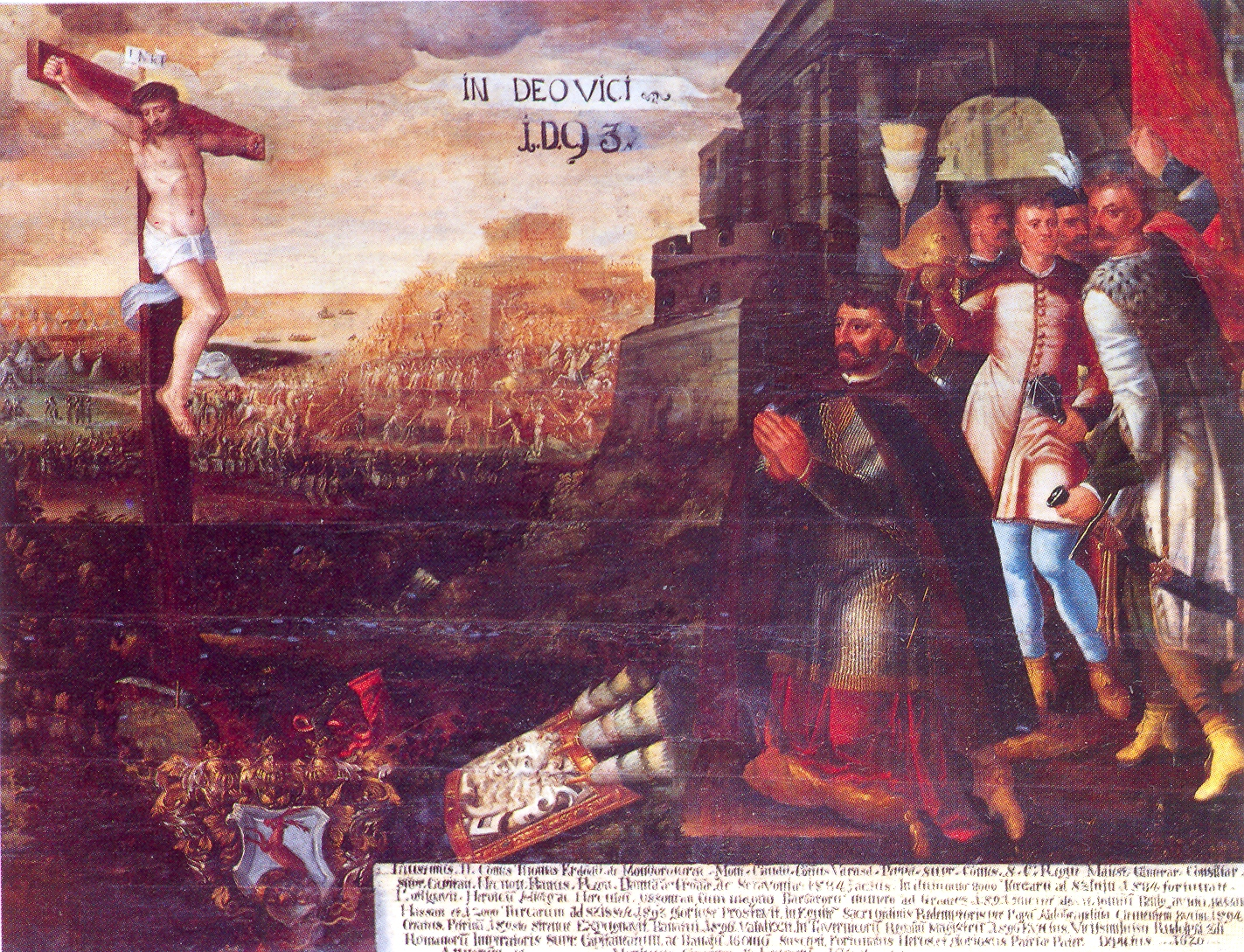 Painting dated c. 1620 depicting Ban of Croatia Tamás Erdődy in prayer following the 1593 Battle of Sisak. Originated from castle of Bojnice, Slovakia